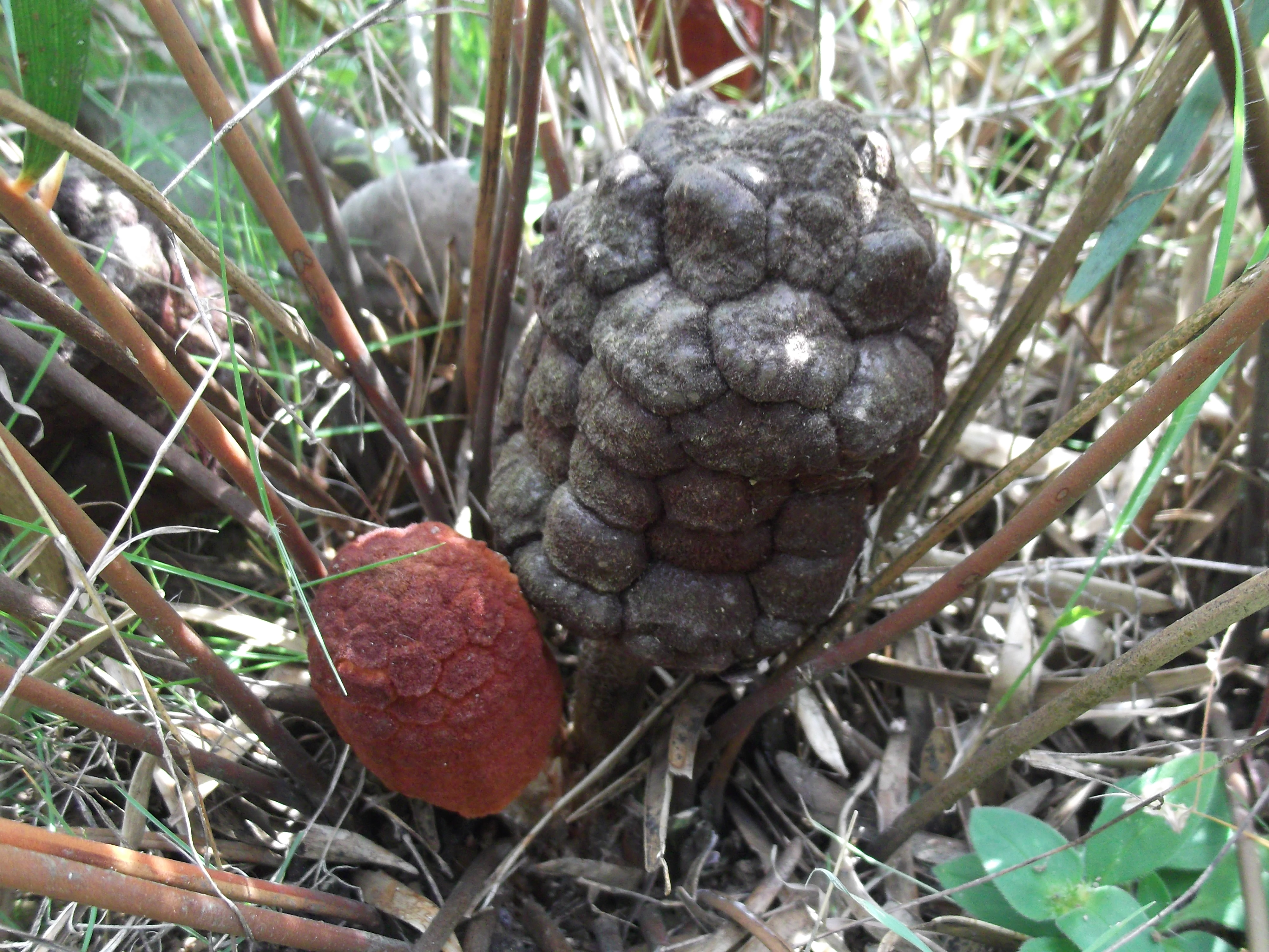 Ground cover plant,leaves evergreen,female cone.